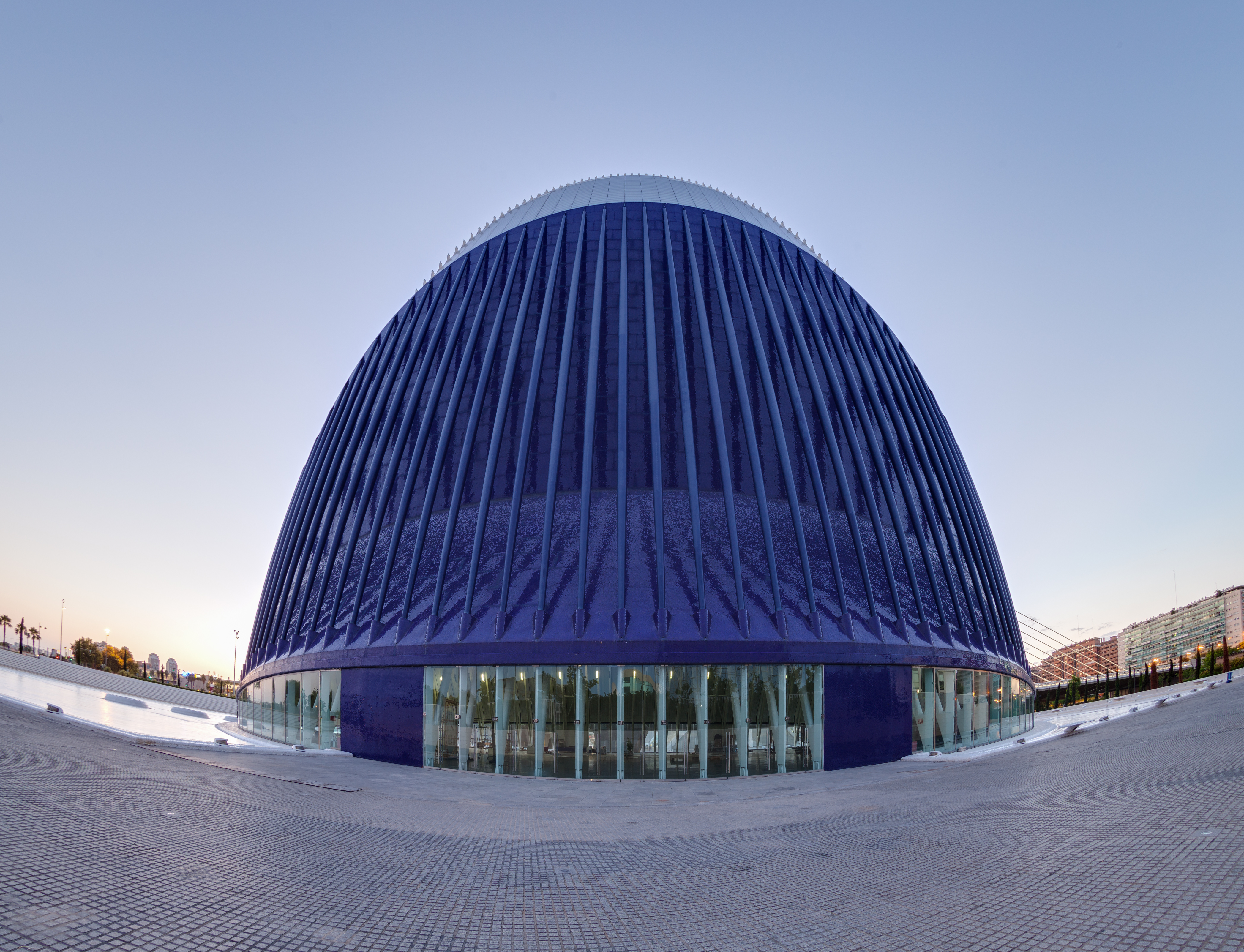 The Agora, City of Arts and Sciences, Valencia, Spain